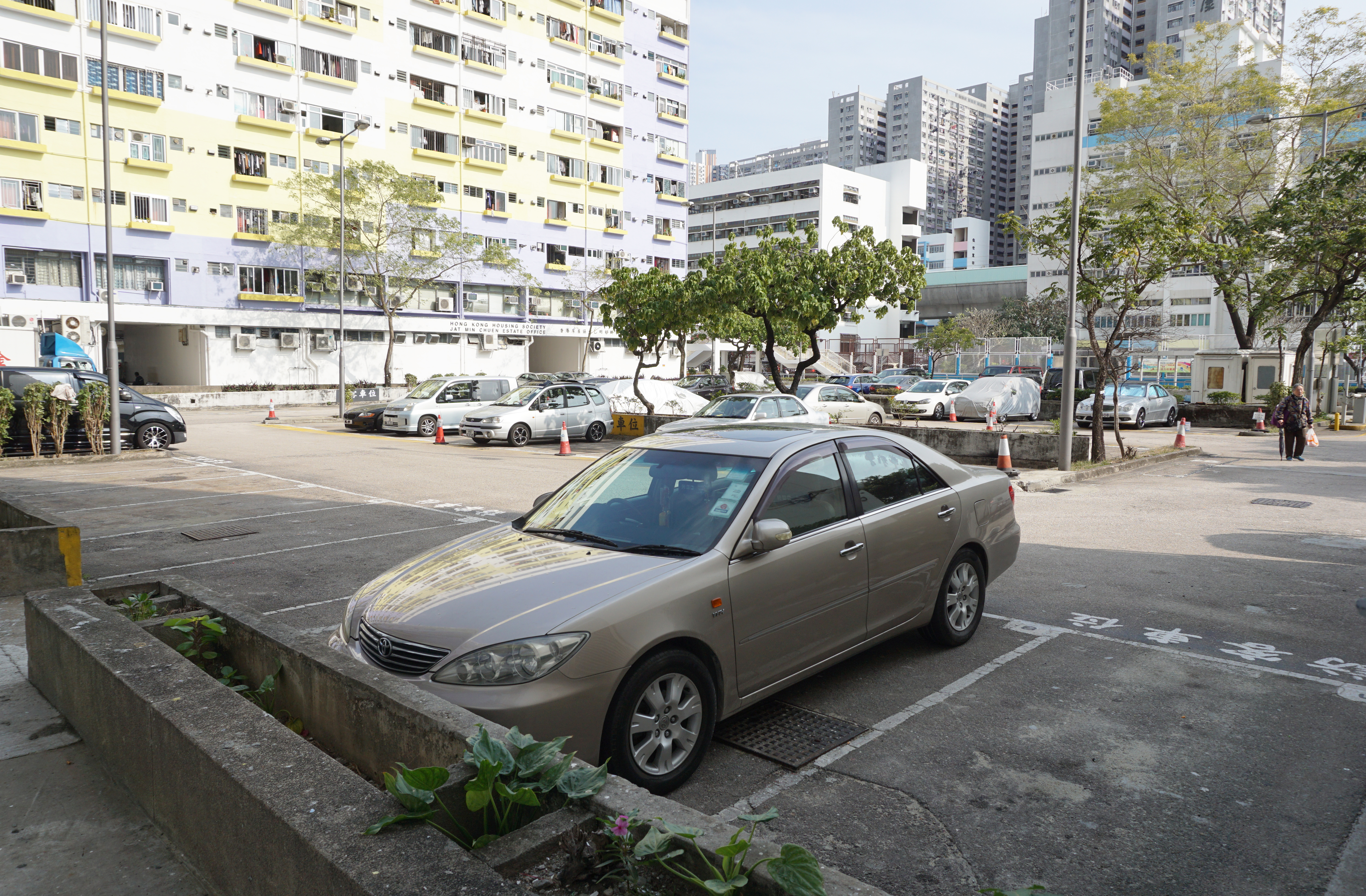 Jat Min Chuen in Sha Tin Wai, Hong Kong.